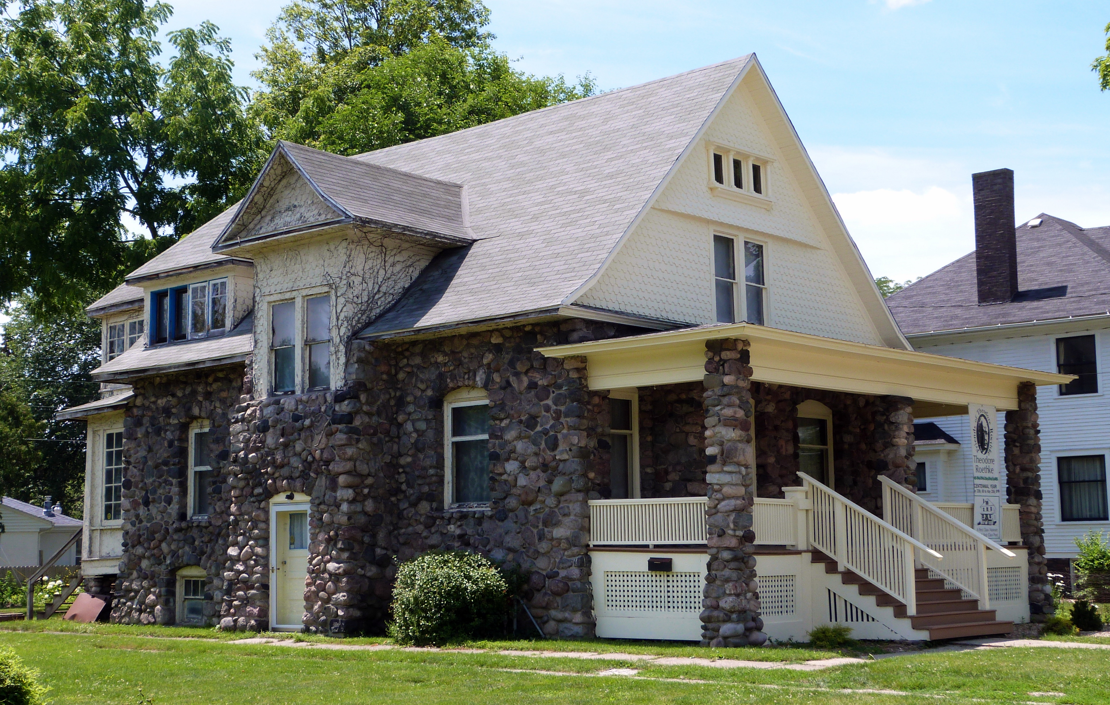 The historic Carl Roethke House, located at 1759 Gratiot Avenue in Saginaw, Michigan, United States, is listed on the US National Register of Historic Places jointly with the neighboring Otto Roethke House.